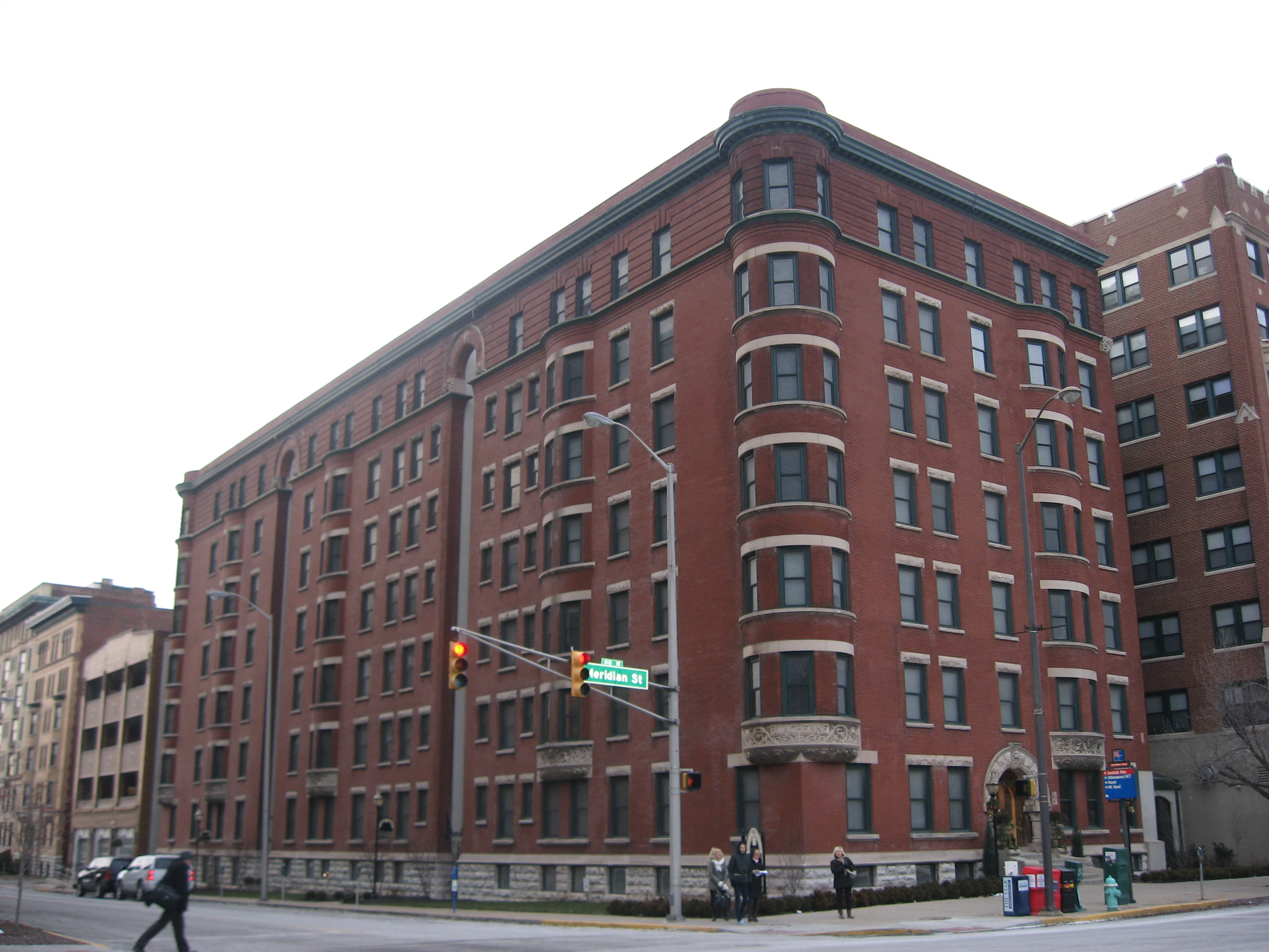 Front of The Blacherne, located at 402 N. Meridian Street in Indianapolis, Indiana, United States. Built in 1895, it is listed on the National Register of Historic Places as one of the "Apartments and Flats of Downtown Indianapolis Thematic Resources".